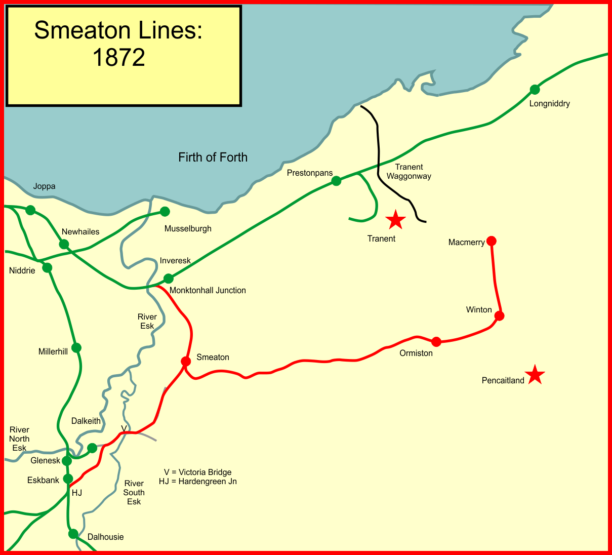 System map of the railway lines to Smeaton from Dalkeith and Monktonhall Junction, and to Macmerry, Scotland, in 1972